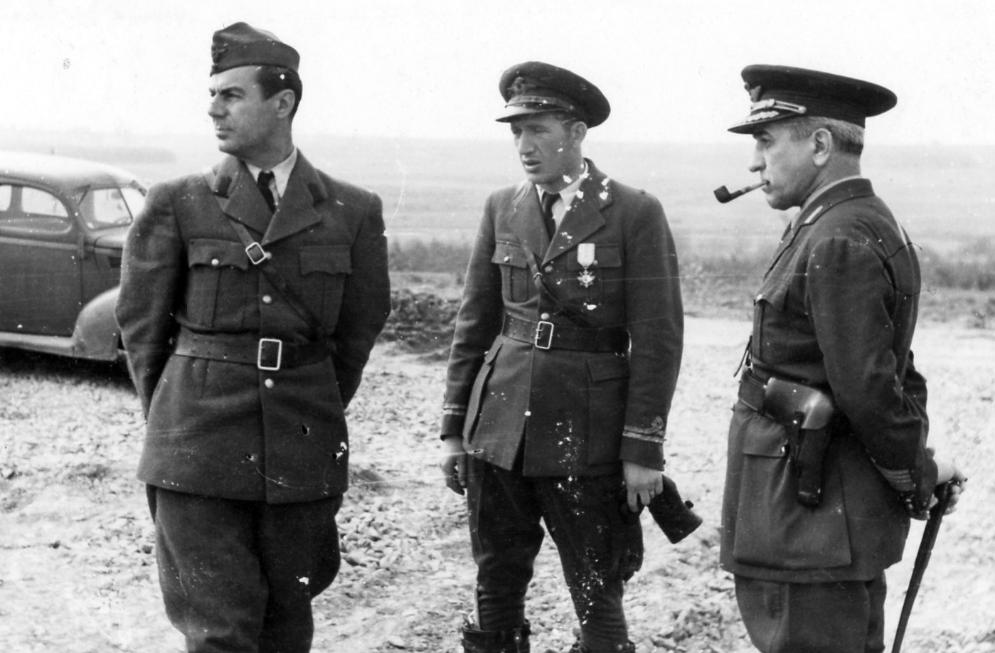 Captain Aviator. Rez Constantin (Bâzu) Cantacuzino, lt. av. Mircea T. Bădulescu, gl. Squadron Traian Burduloiu, commander of the 1st Romanian Air Corps (from left to right) on the west front, Lucenec (Slovakia), April 1945.